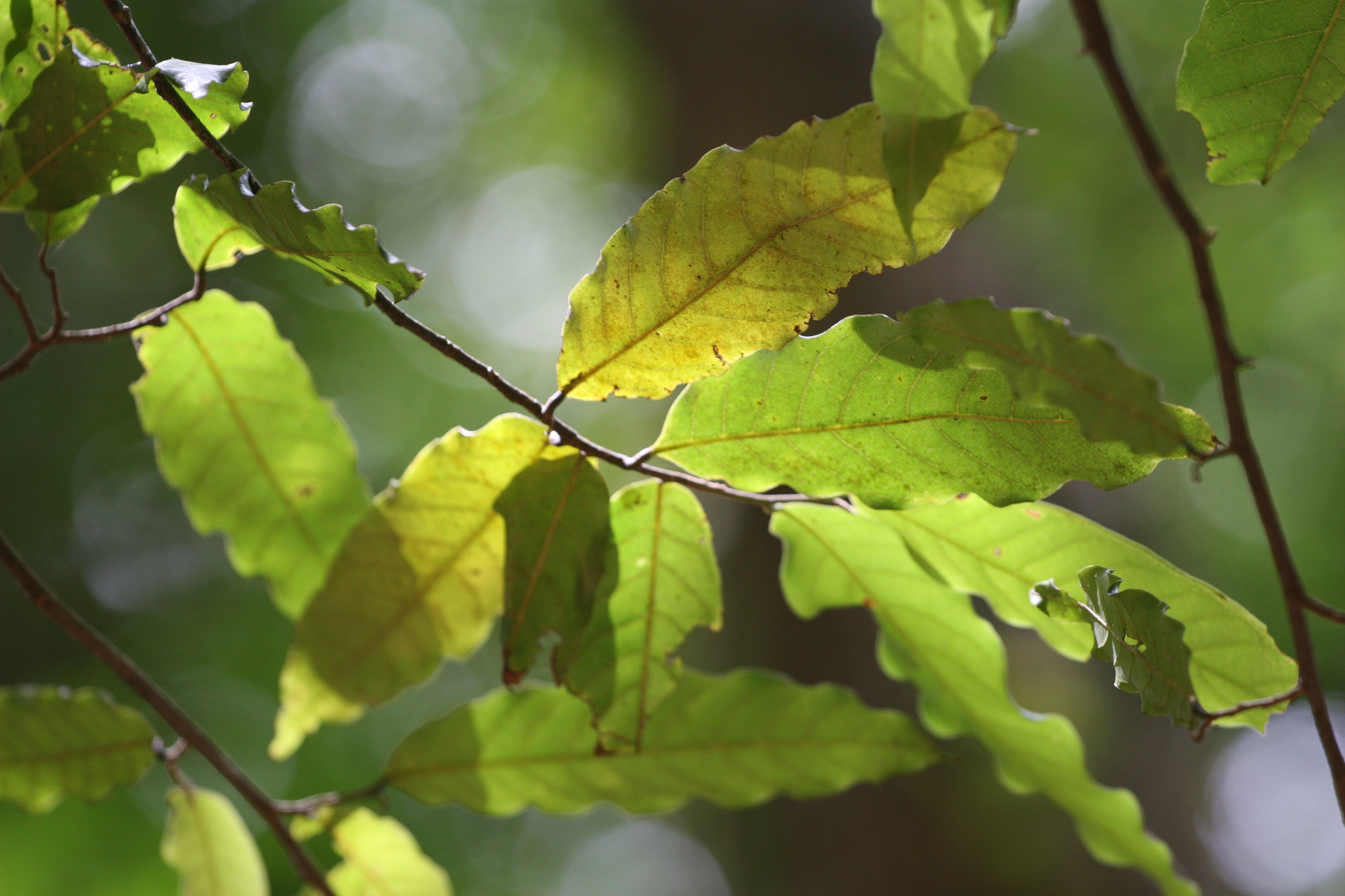 Polyalthia coffeoides leaves